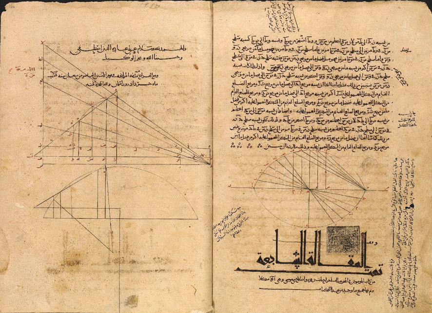 The Conica of Apollonius of Perga ‘the great geometer’ (c. 262-190 BCE) were translated into Arabic in the 9th century CE. These two pages form the colophon of the manuscript. Shelfmark: MS. Marsh 667